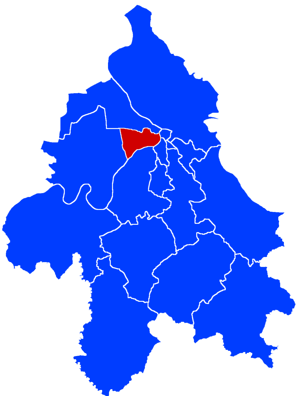 The graphical representation of the municipality of New Belgrade within the city of Belgrade